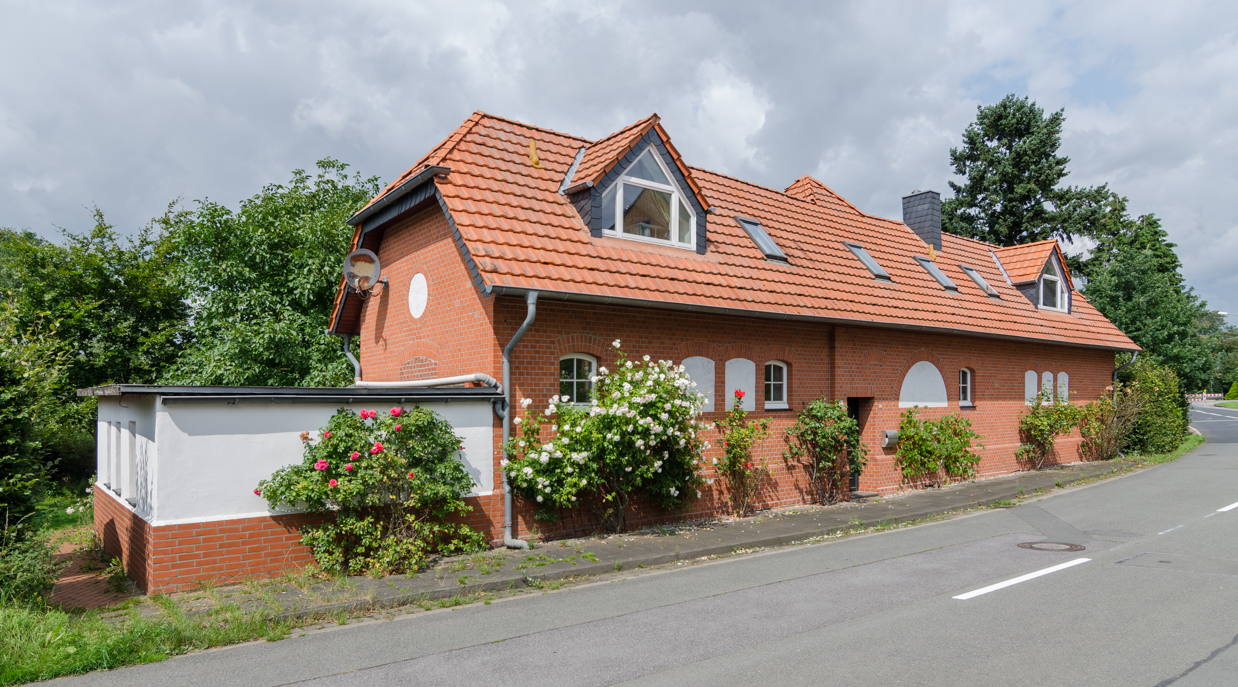 Alpen (North Rhine-Westphalia, Germany) – district Bönninghardt – former train station